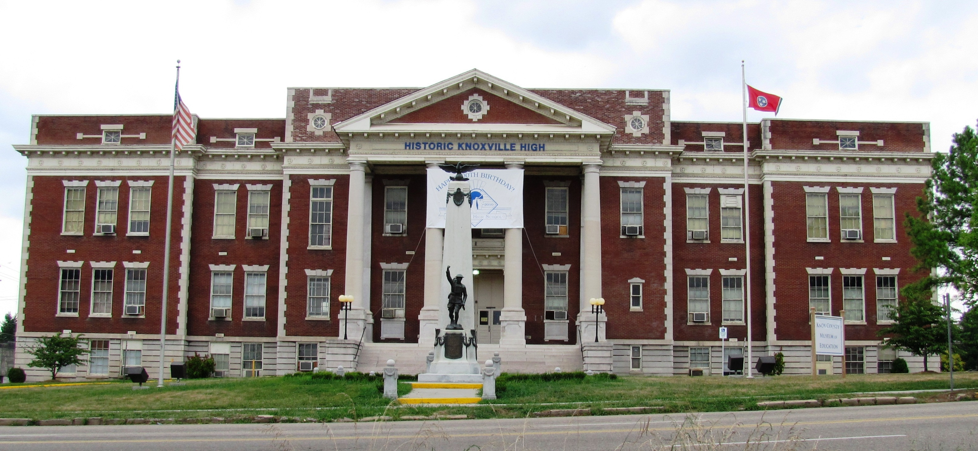 Knoxville High School (101 E. Fifth Avenue) in Knoxville, Tennessee, USA. Built in 1910 and designed by architect Albert Baumann, Sr., this school is now listed as a contributing structure within the NRHP-listed Emory Place Historic District. The school operated 1910–1951.